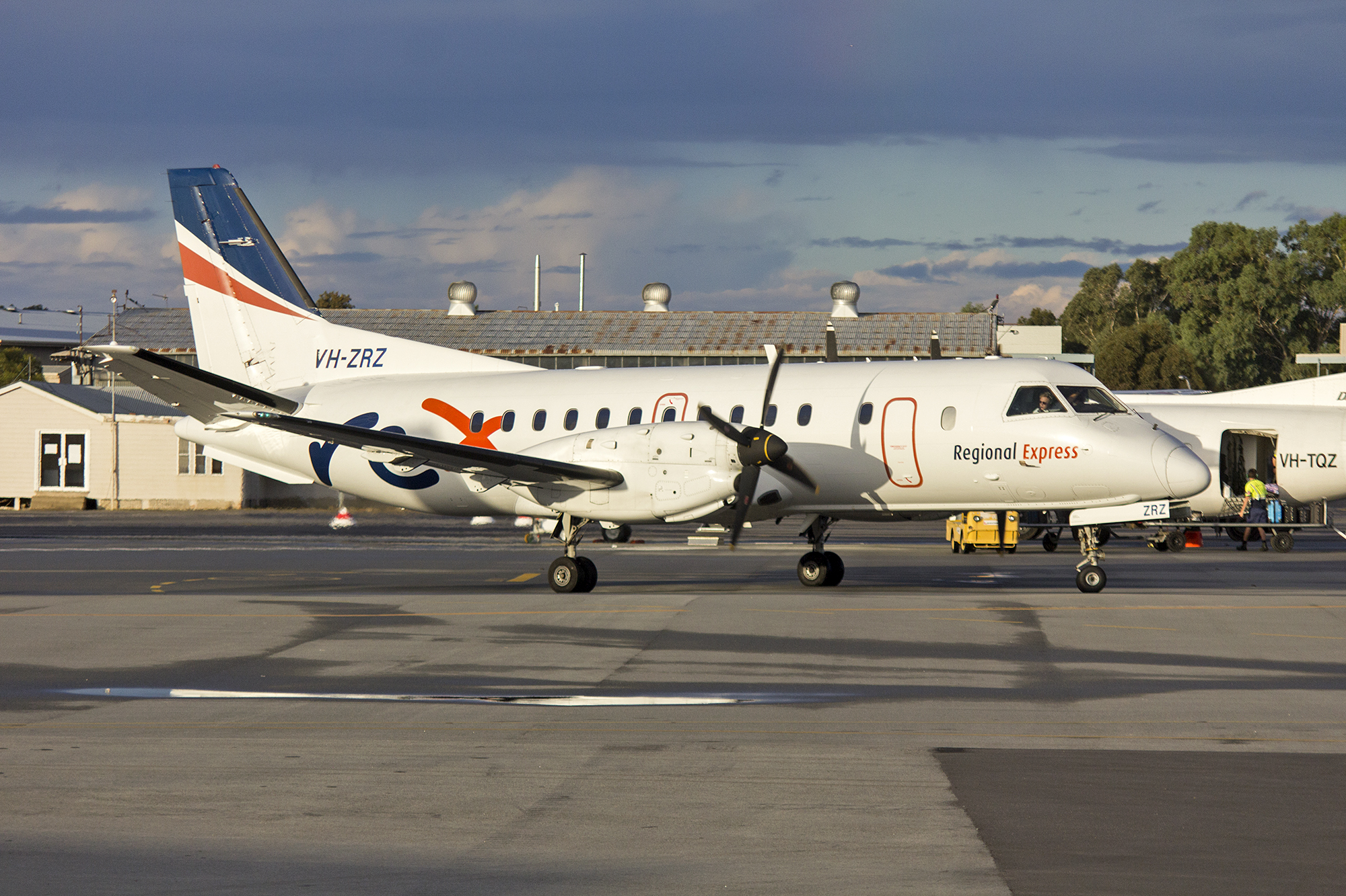 Regional Express Airlines (VH-ZRZ) Saab 340B taxiing at Wagga Wagga Airport.